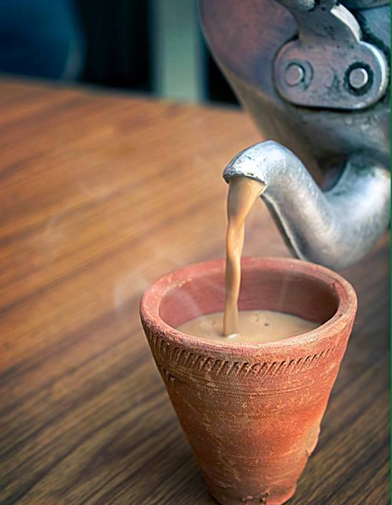 Speciality is The Glass in which this masala Tea is poured.